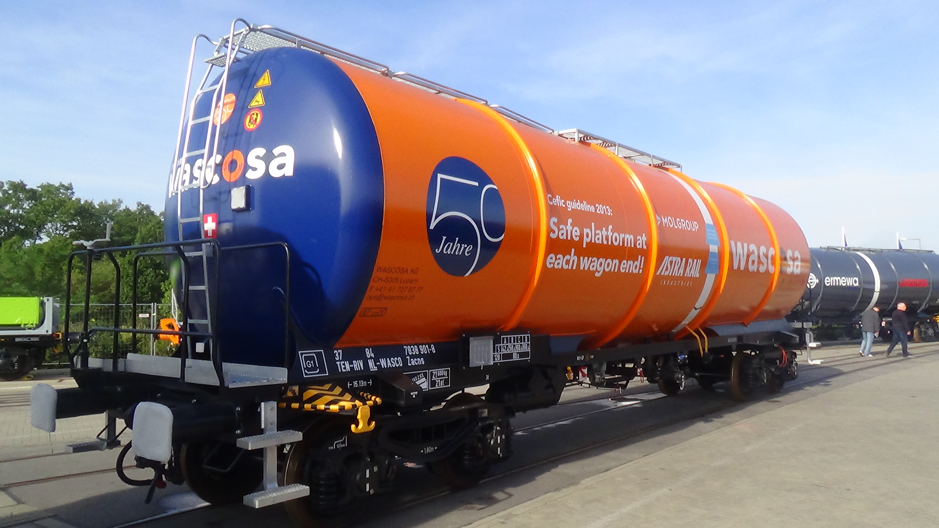 Astra Rail Industries S.R.L. Zacns 87m³